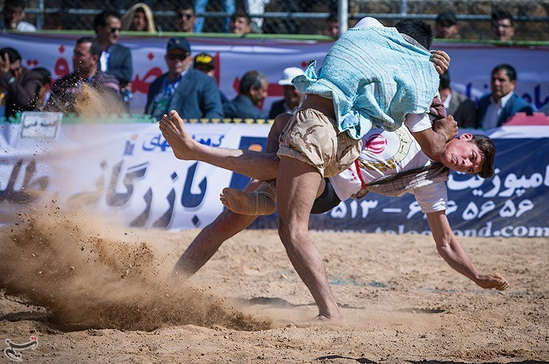 Ba-chukhe wrestling (traditional wrestling in Northern Khorasan) at Zaynal-khan pitch